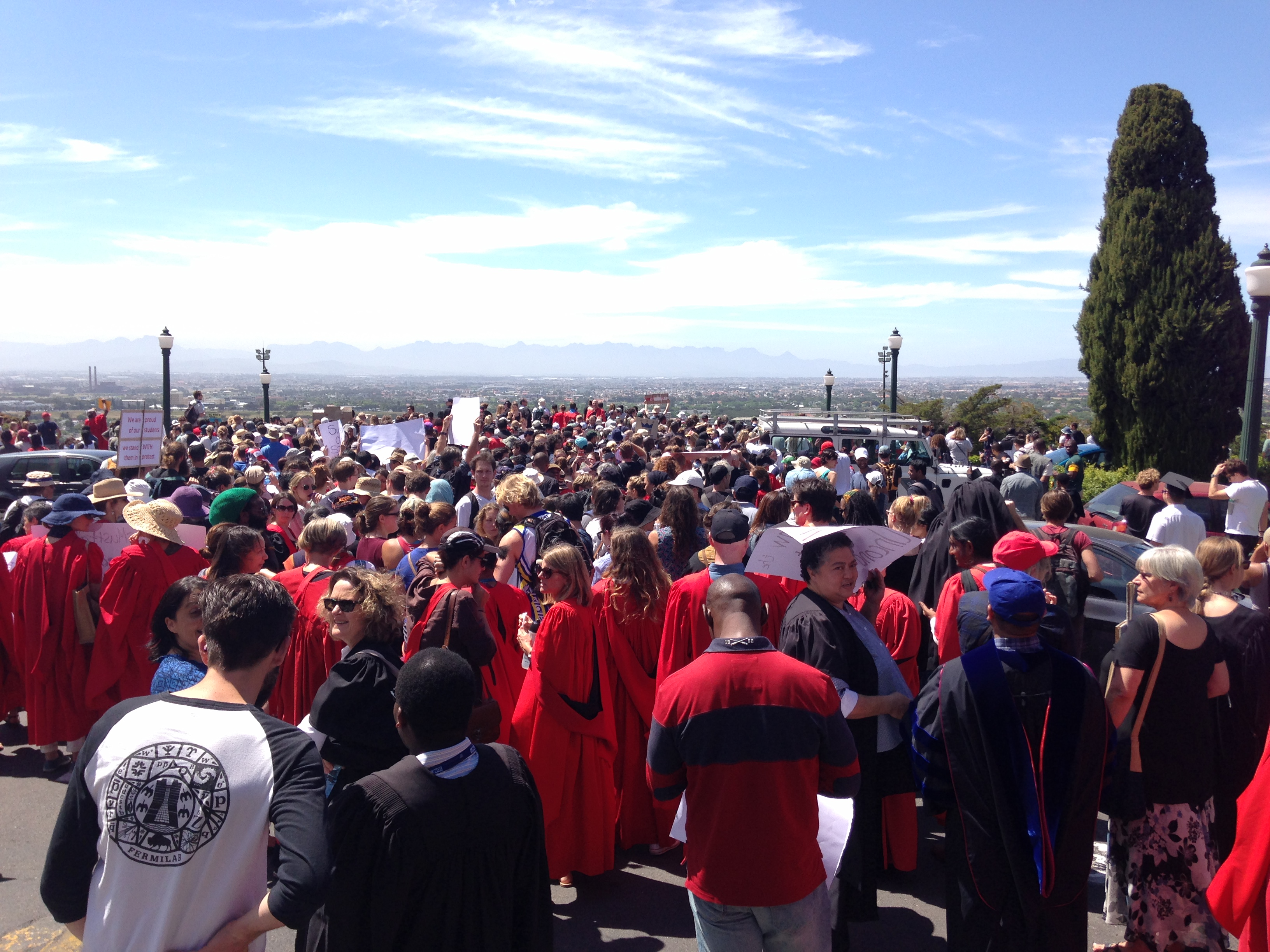 Students and staff at the University of Cape Town march on the university's administration building to hand over a list of demands to management.